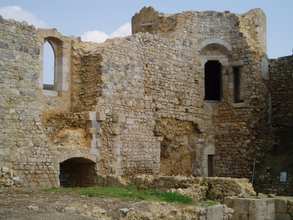 Château de Brie-Comte-Robert, East tower, from the courtyard.